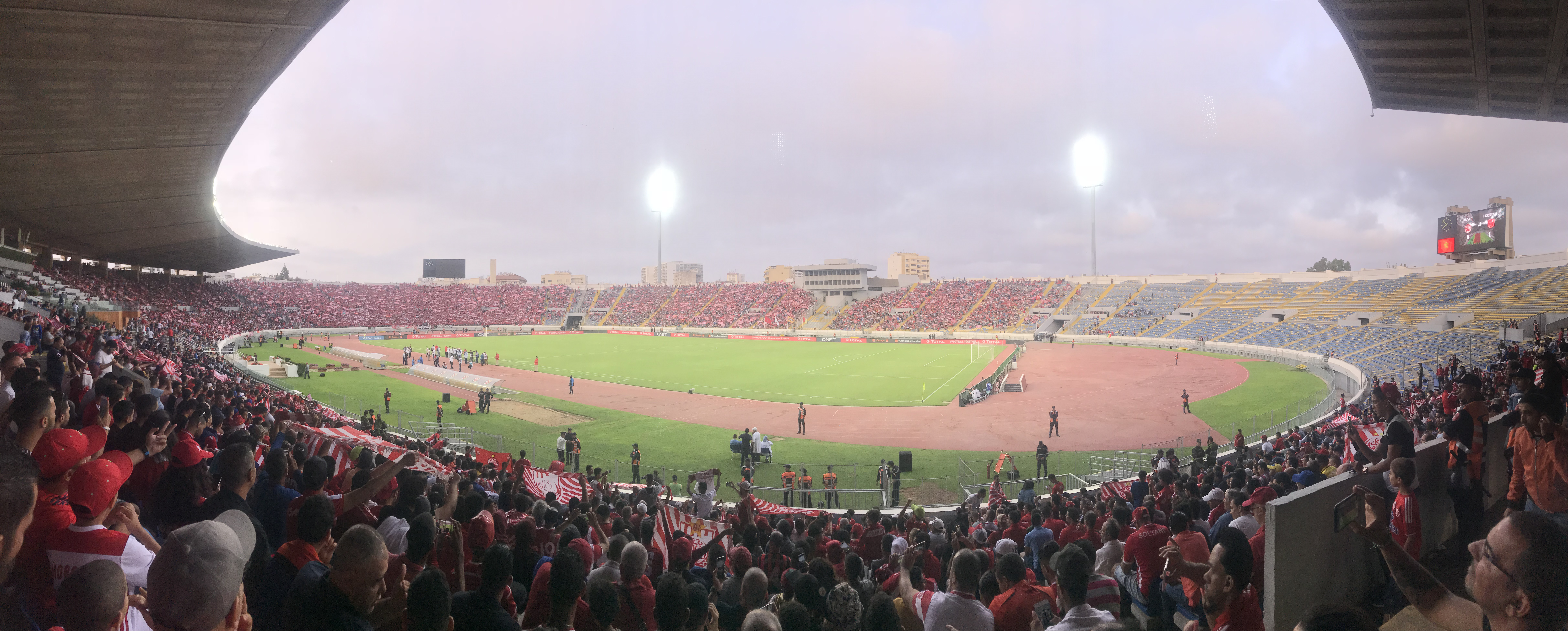 Stade Mohamed V, Casablanca: African Champions League: Wydad Casablanca - Horoya FC (2-0) 28/07/2018